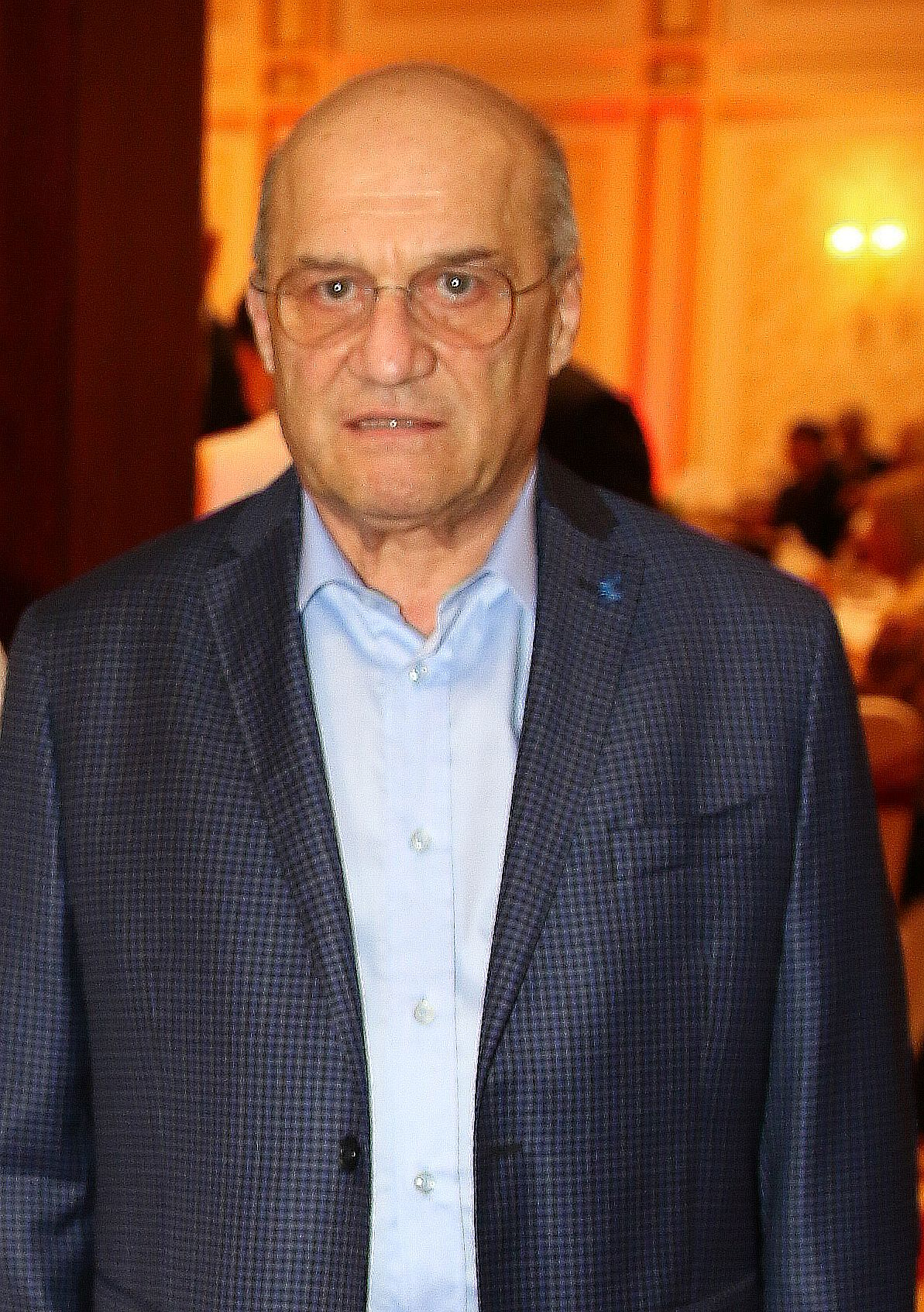 Vassil Teofilov Vassilev - Bulgarian officer, ret. Major General